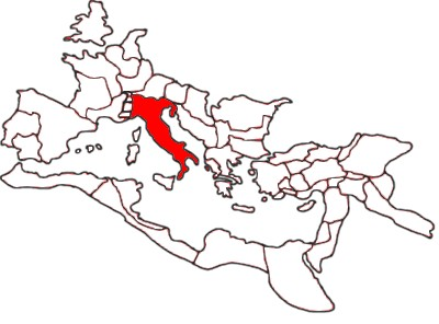 Map of the Roman Empire around 120 AC with Italy highlighted. Based on Image:REmpire-blank.png.